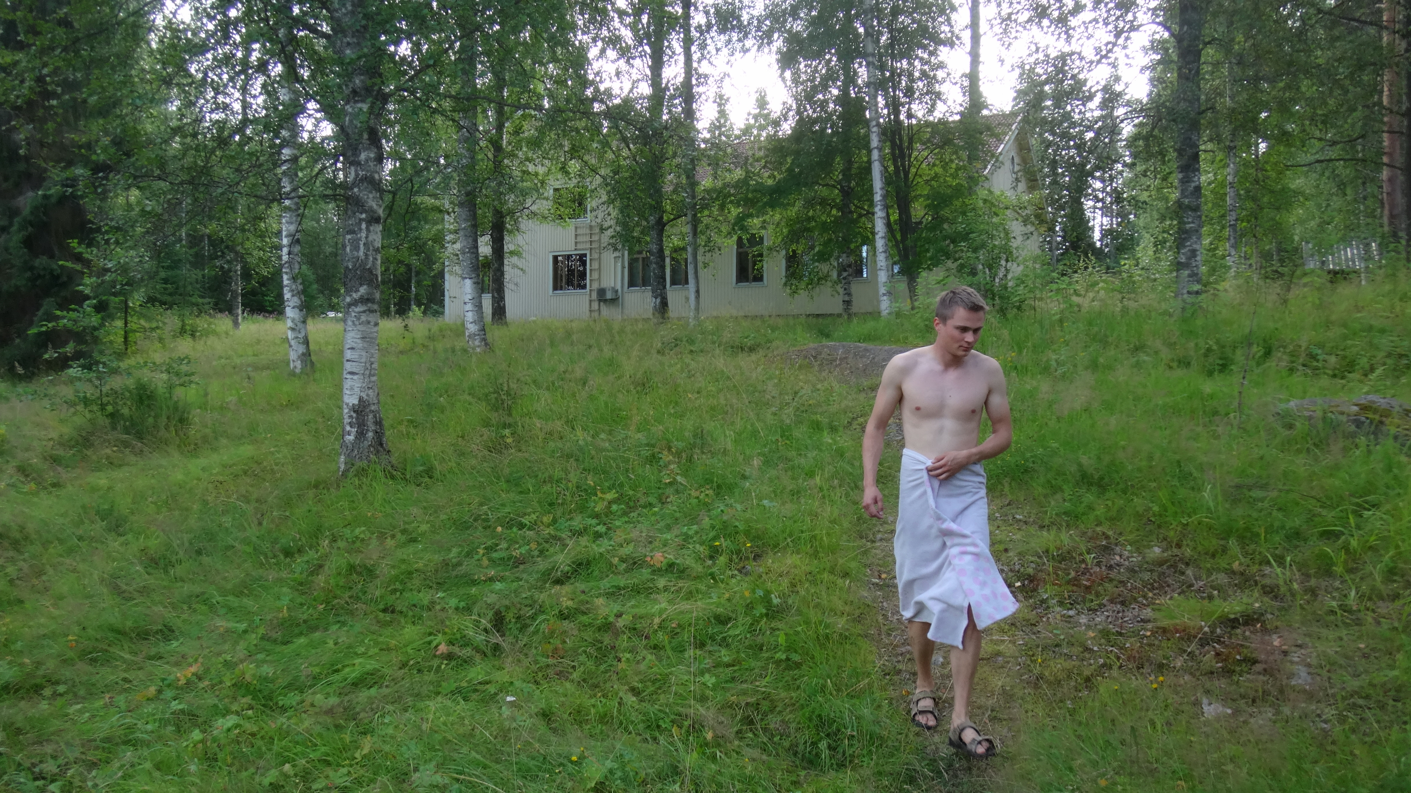 Old Pyhalahti Elementary School Beach side Lake Keitele